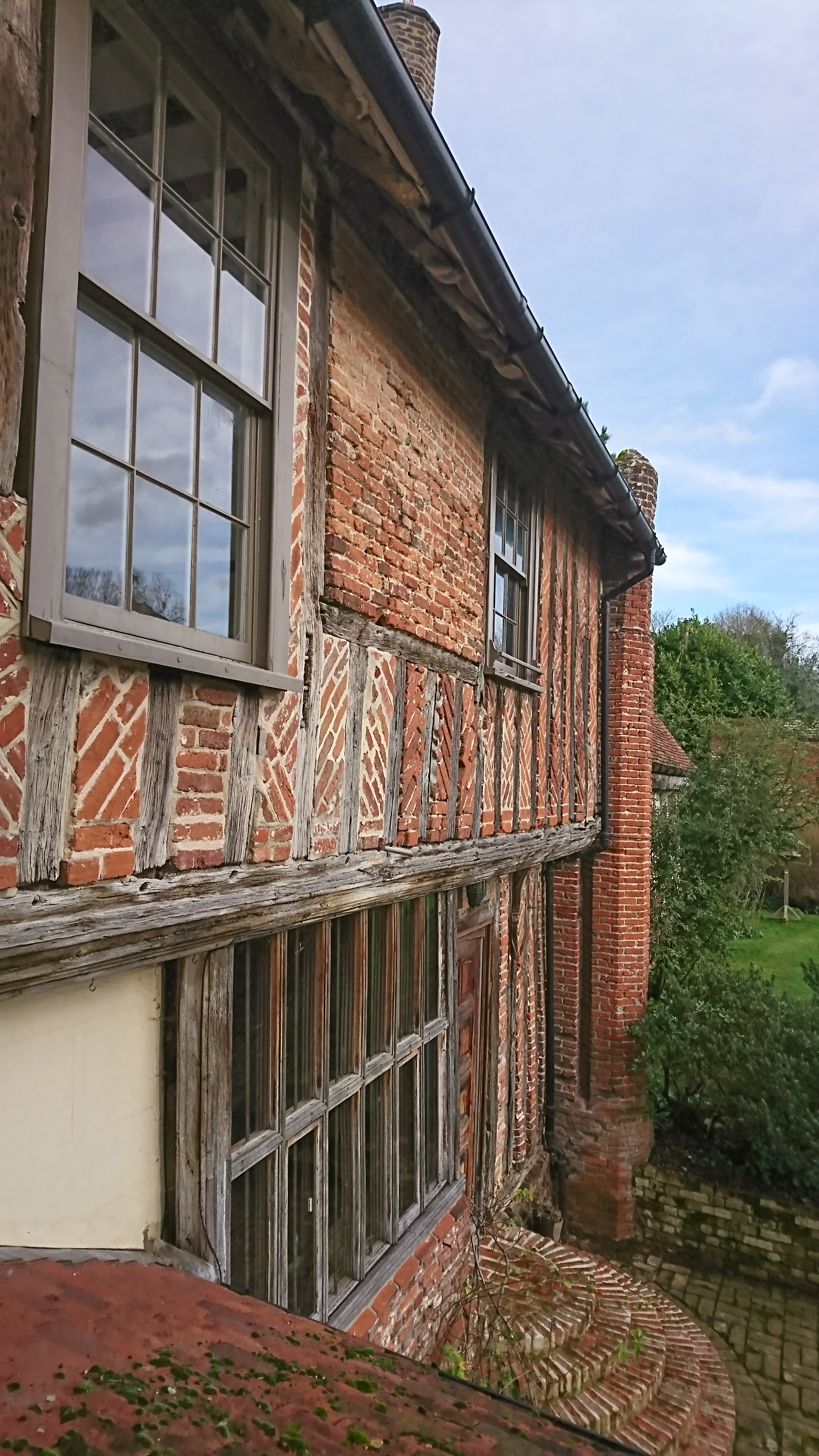 Close view of the medieval brick nogging at Benton End